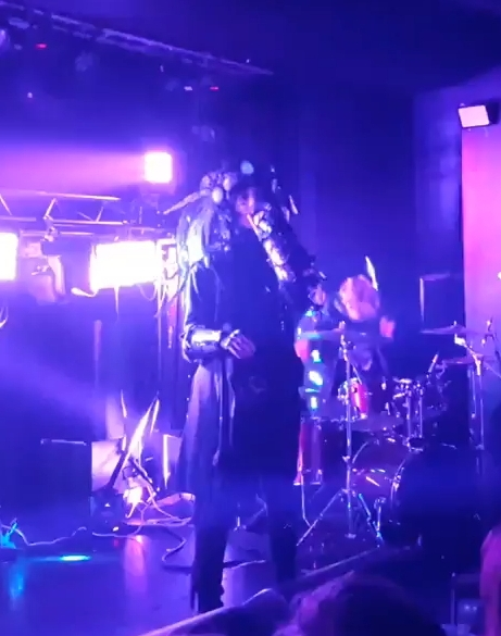 Richie Geise performing live in his "Social Repose" outfit